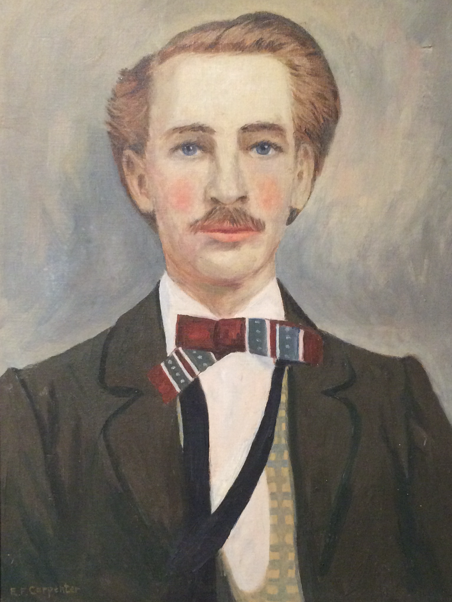 George Wayne Anderson color painting at Fort McAllister